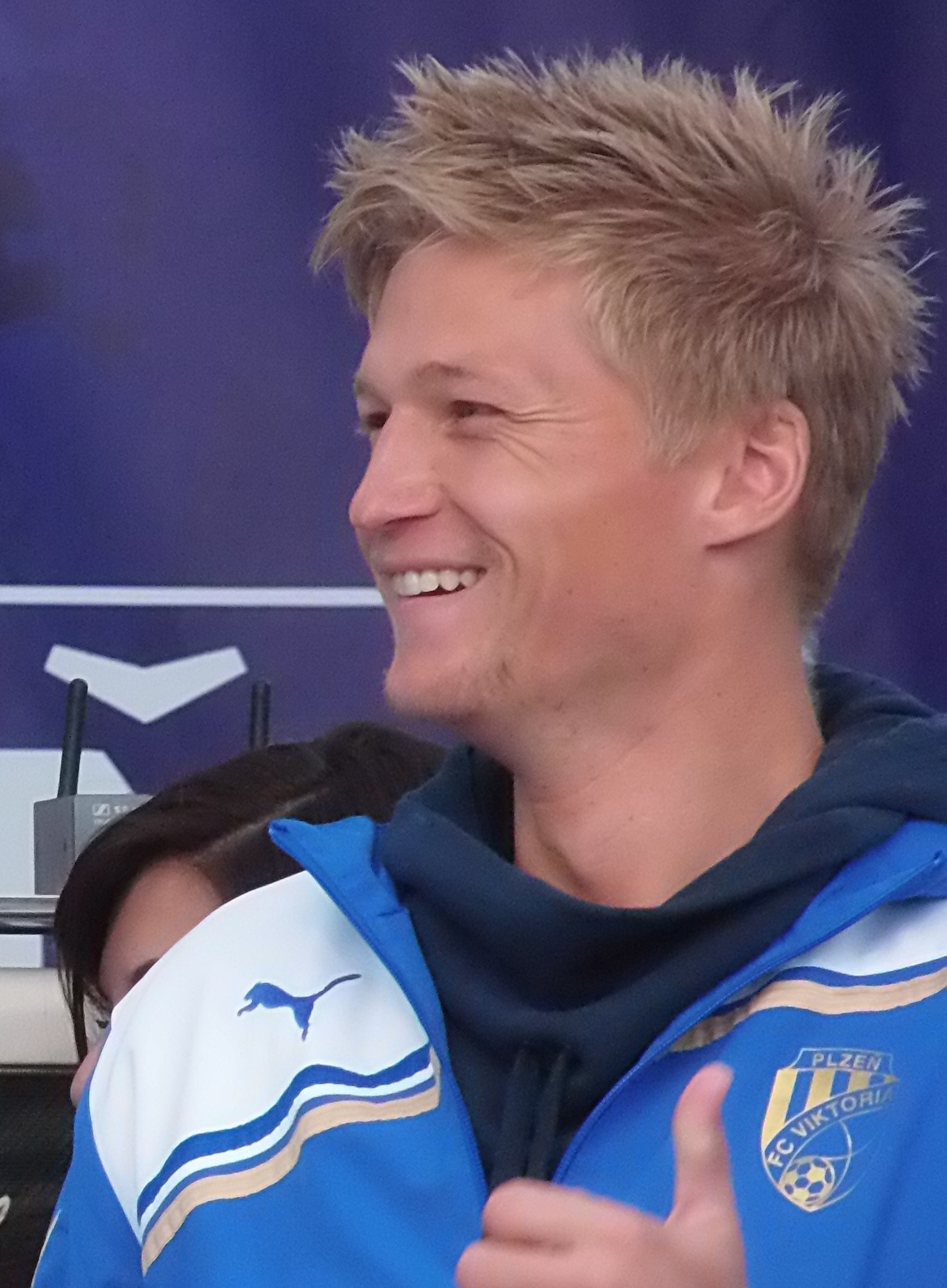 Václav Procházka 2013-06-26 (František Rajtoral (František Rajtoral a Václav Procházka.JPG, cropped)